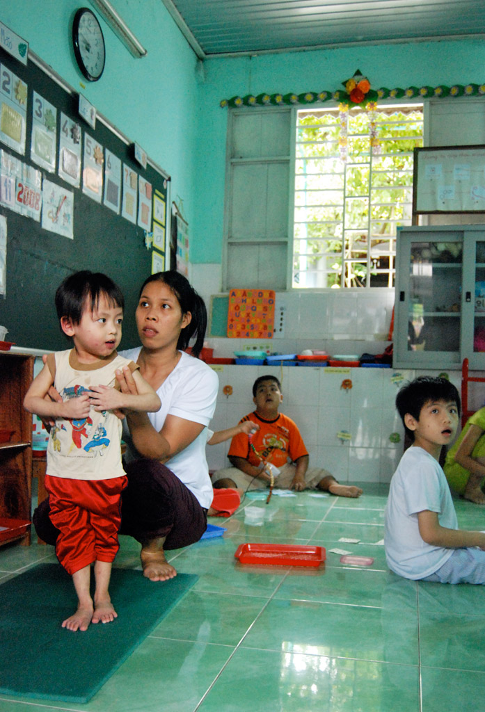 A teacher helps her student at an orphanage in central Vietnam. The orphanage caters to many abandoned and disabled children - through education and communication programs they are able to have a life that would not be possible. What you don't see in the photo is that the orphanage itself was flooding, the lower levels were ankle deep in water. And yet they still were teaching classes.